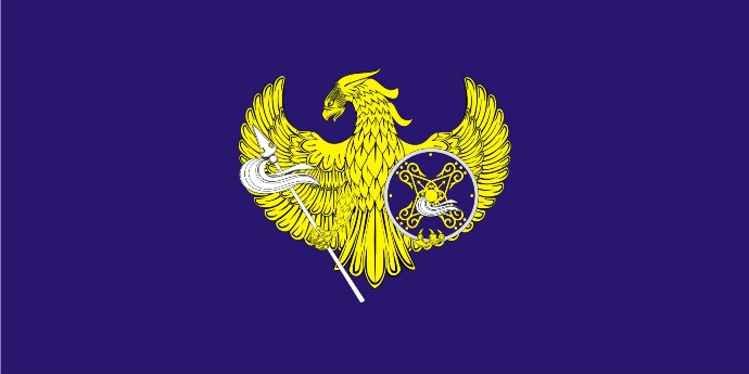 Flag of the Syrbar Intellignce Service of Kazakhstan